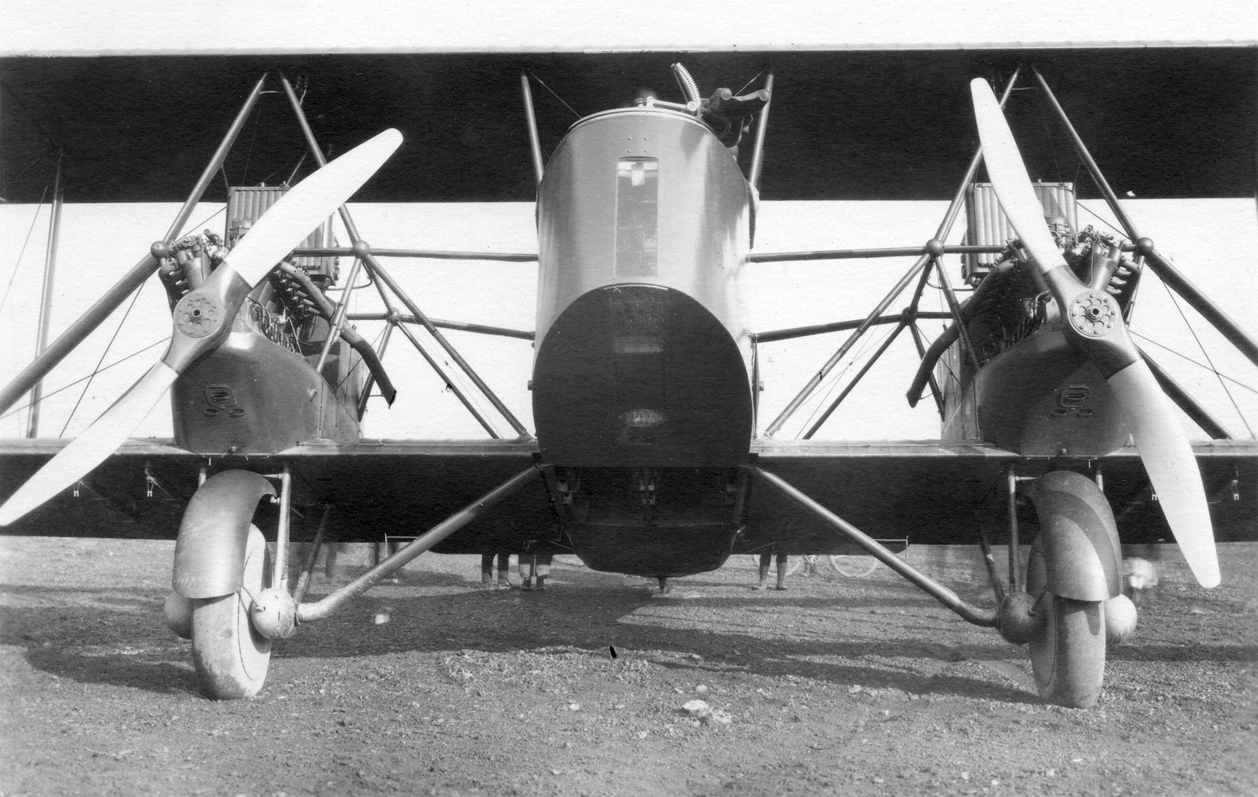 Martin MB-2 (NBS-1) front closeup.